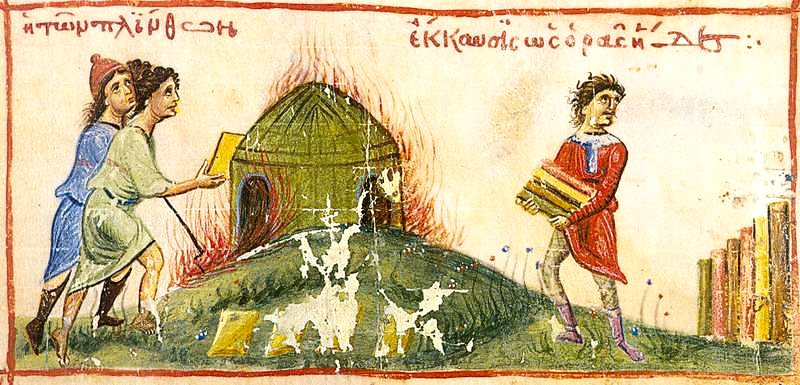 Kiln for ceramics (miniature, Rome, Vatican Library, Vat. Gr. 746, f. 61r)